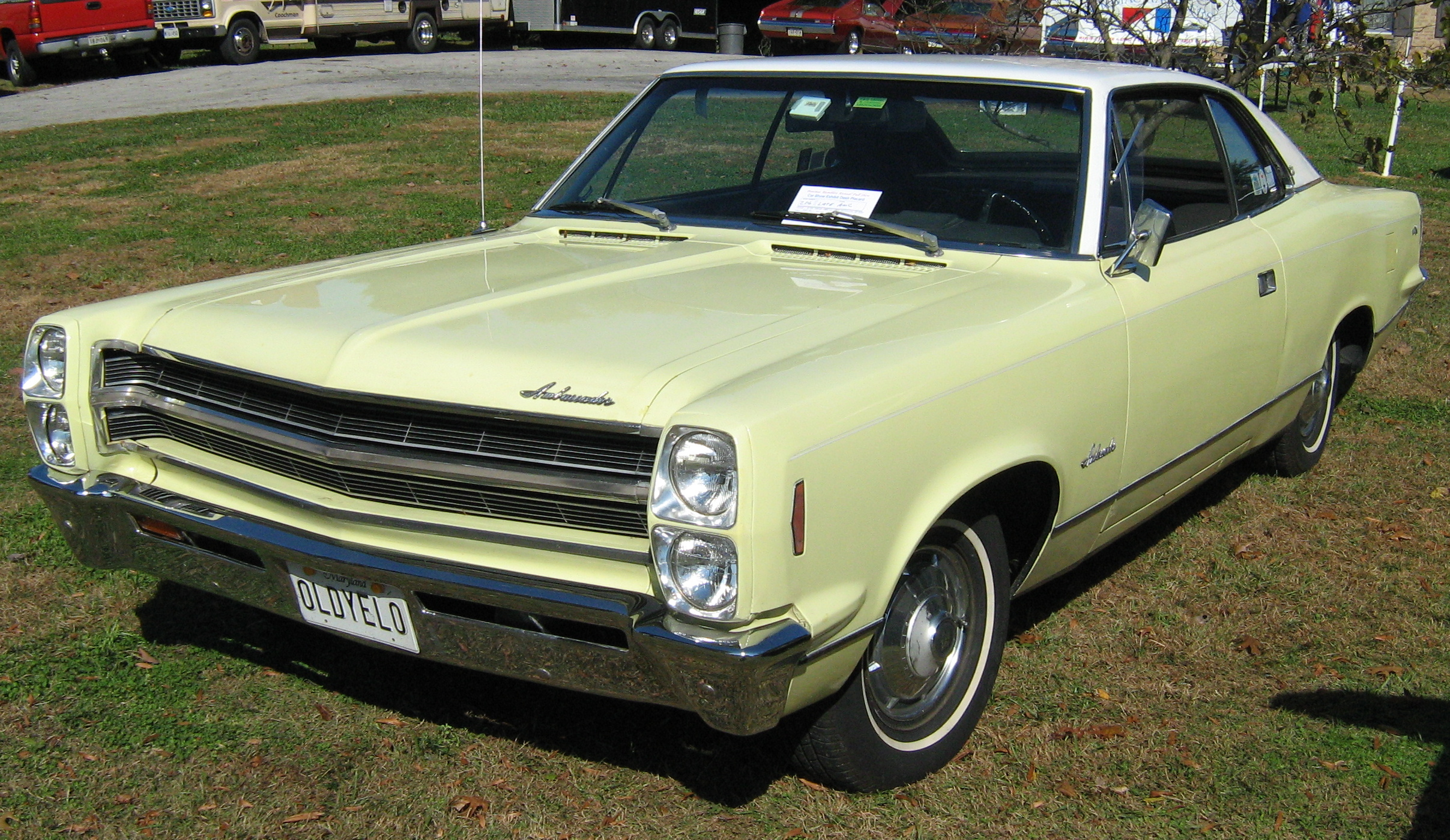 1968 Ambassador, made by American Motors Corporation (AMC). A two-door hardtop with 343 CID (5.6 L) V8 engine and automatic transmission. This car is finished in "Hialeah Yellow" (paint code P58A) with two-tone roof paint ("Frost White" - P58A). Note: the outside rear view mirror on this car is not factory original, but an aftermarket replacement. The lower body side moulding is not original, but is similar in appearance to the factory trim for this model and year. This vehicle also has visible collision damage, with the right side of the front bumper, along with the right side headlamp assembly, pushed several inches into the right fender.